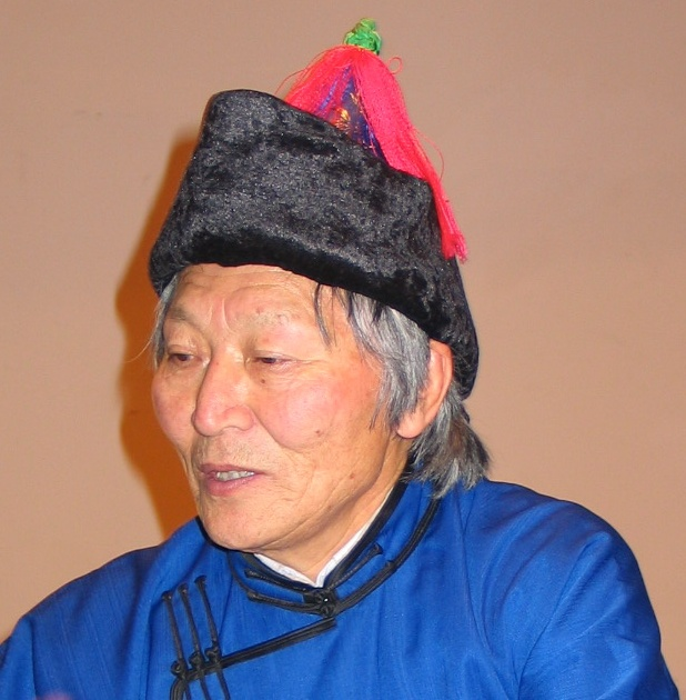 Mongolian novelist and shaman Galsan Chinag.